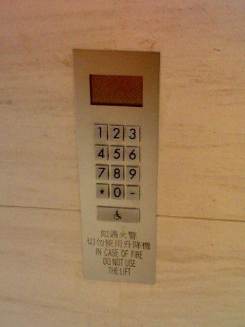 Miconic 10 Keyboard